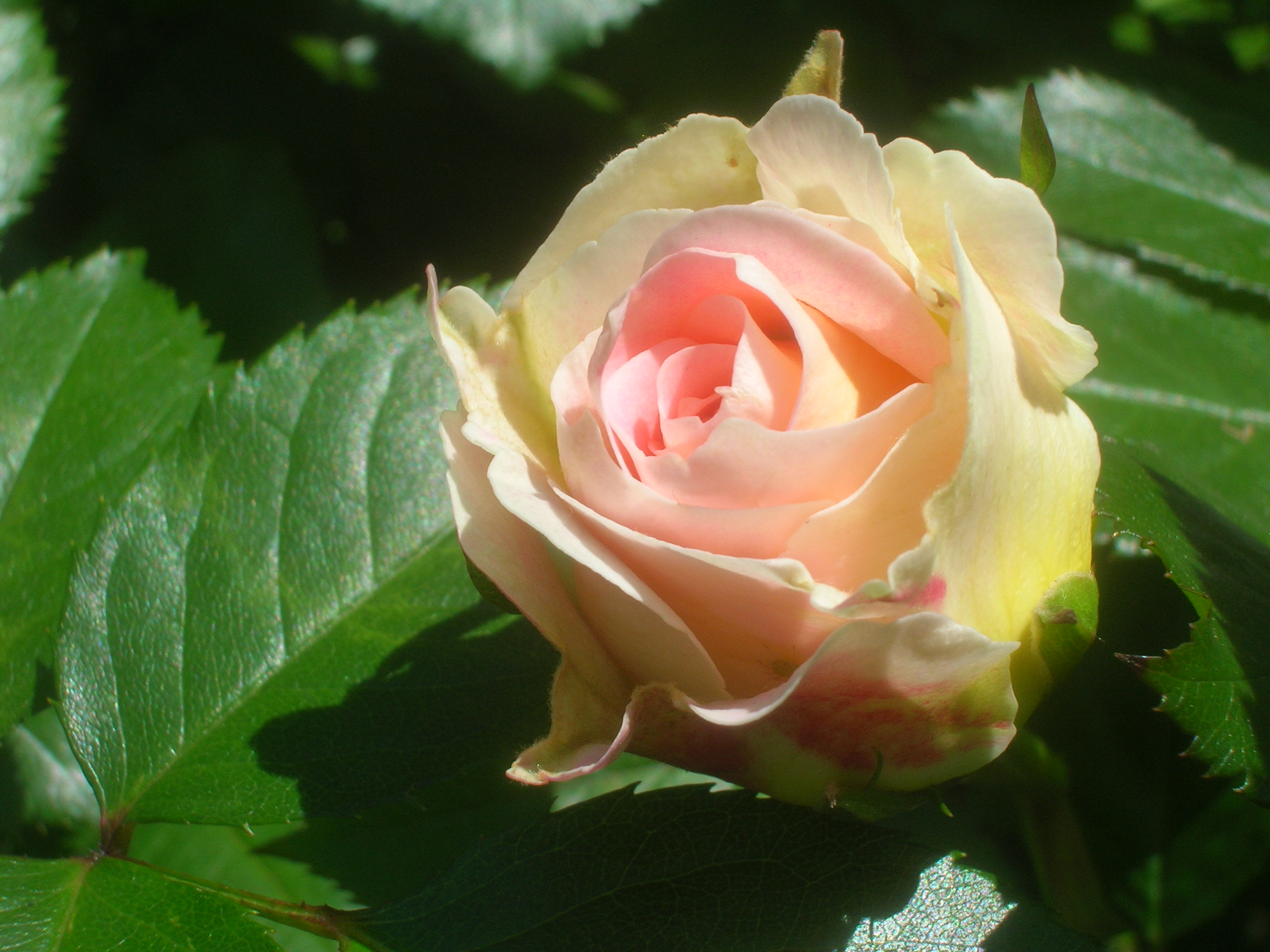 Rosa 'Cesar' in the Volksgarten in Vienna.